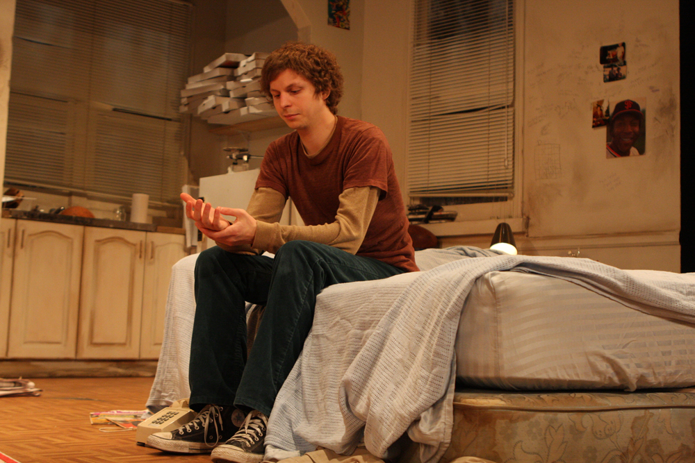 This is Our Youth New York 1980s Play Comes To Sydney Opera House